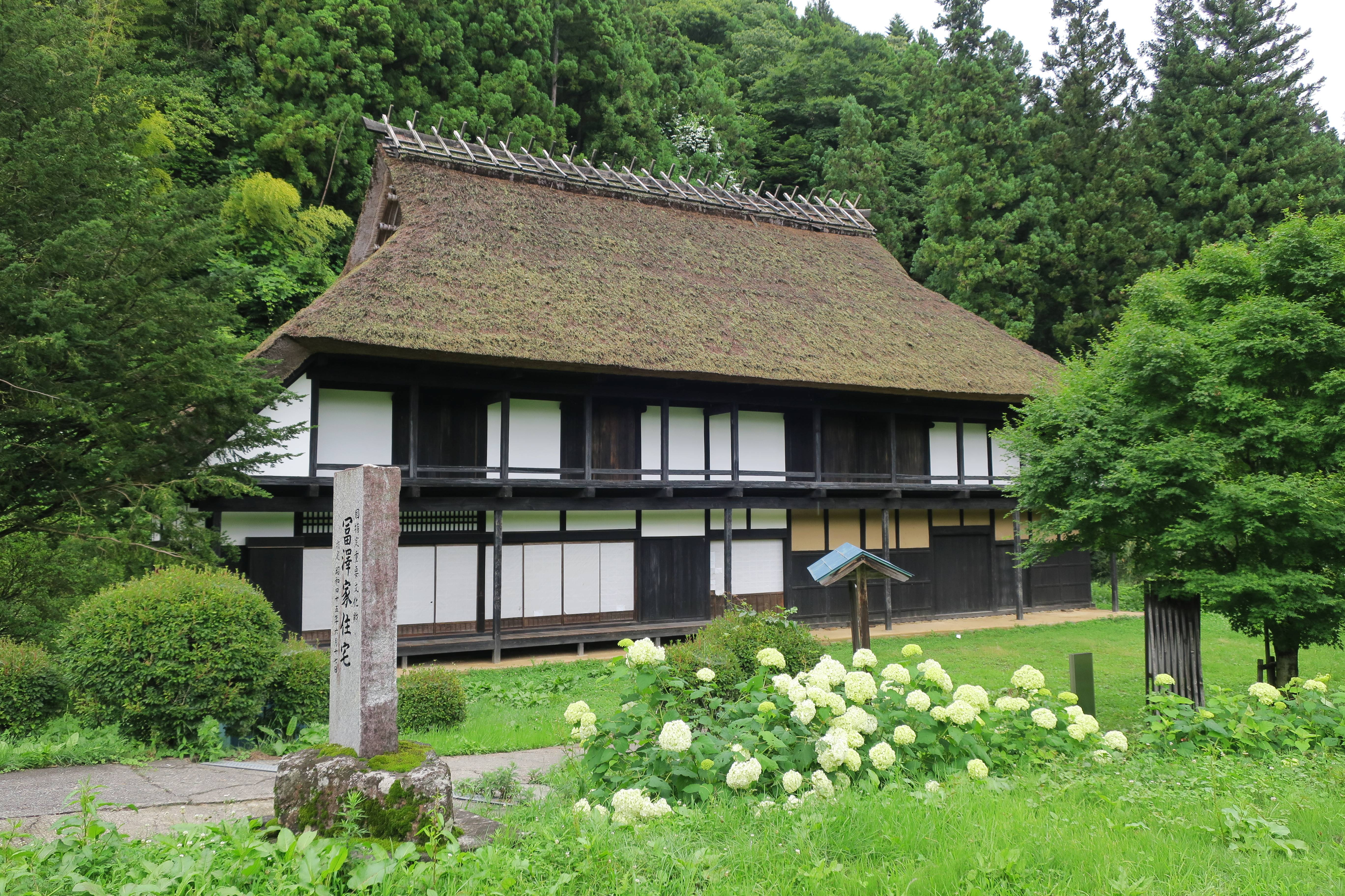 Tomizawa-ke House (Nakanojō, Gunma).